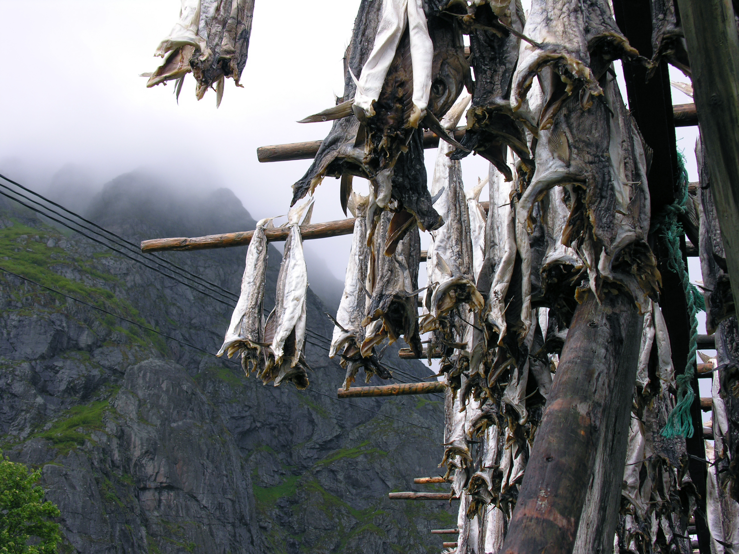 Stockfish in Lofoten, Norway.